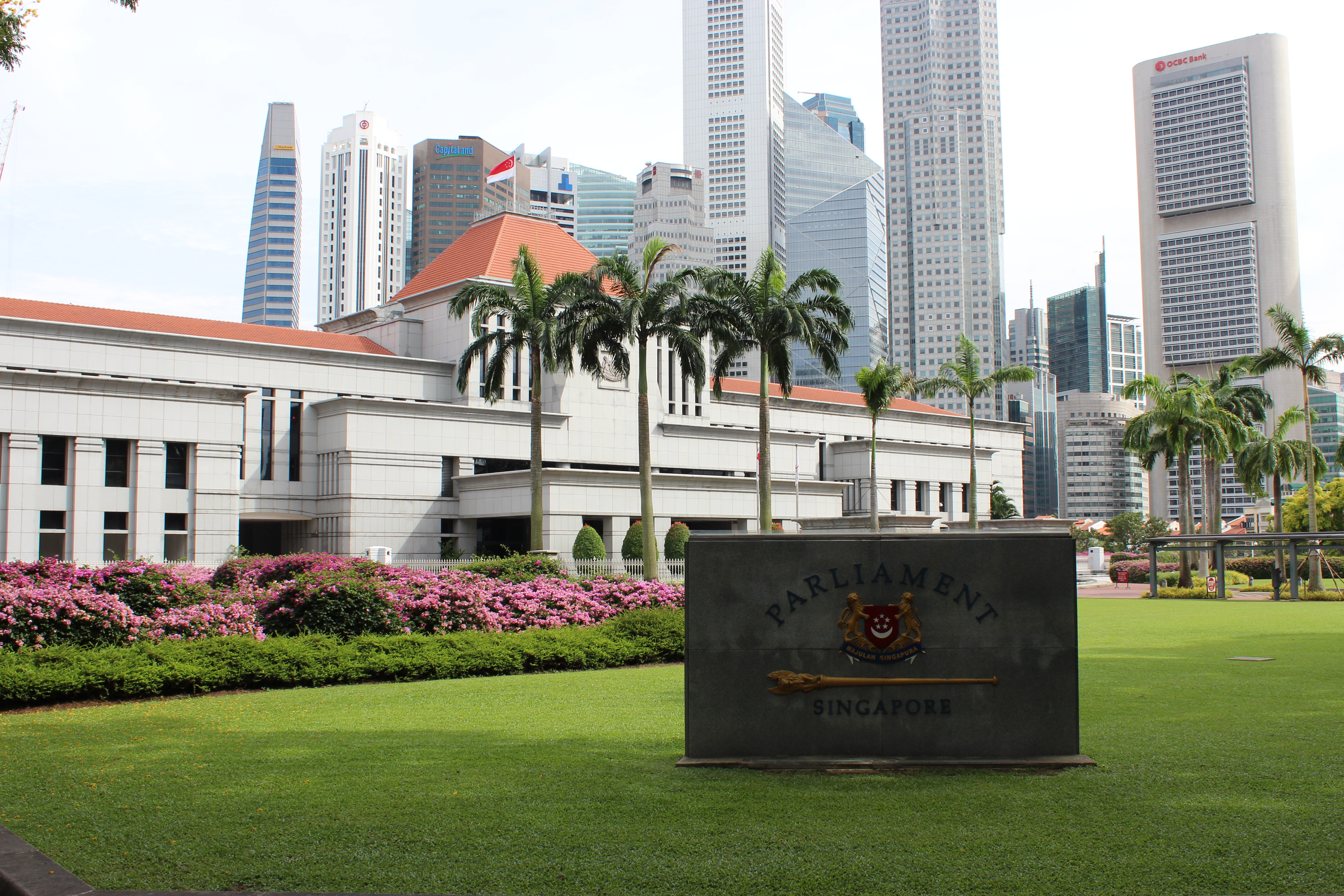 Parliament House, Singapore.